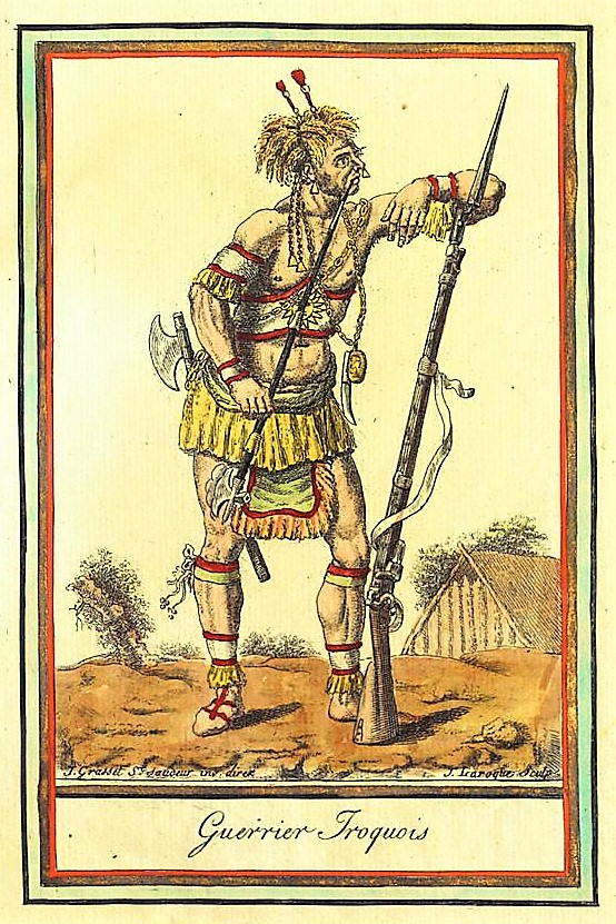 Iroquois Warrior, from 'Encyclopedie Des Voyages', Engraved by J. Laroque, 1796